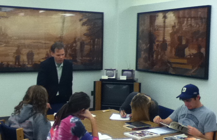 Murals commissioned by Broadcasting magazine in 1945 dominate the reading room at the Broadcasting Archives at the University of Maryland. The artist is W.B. McGill.